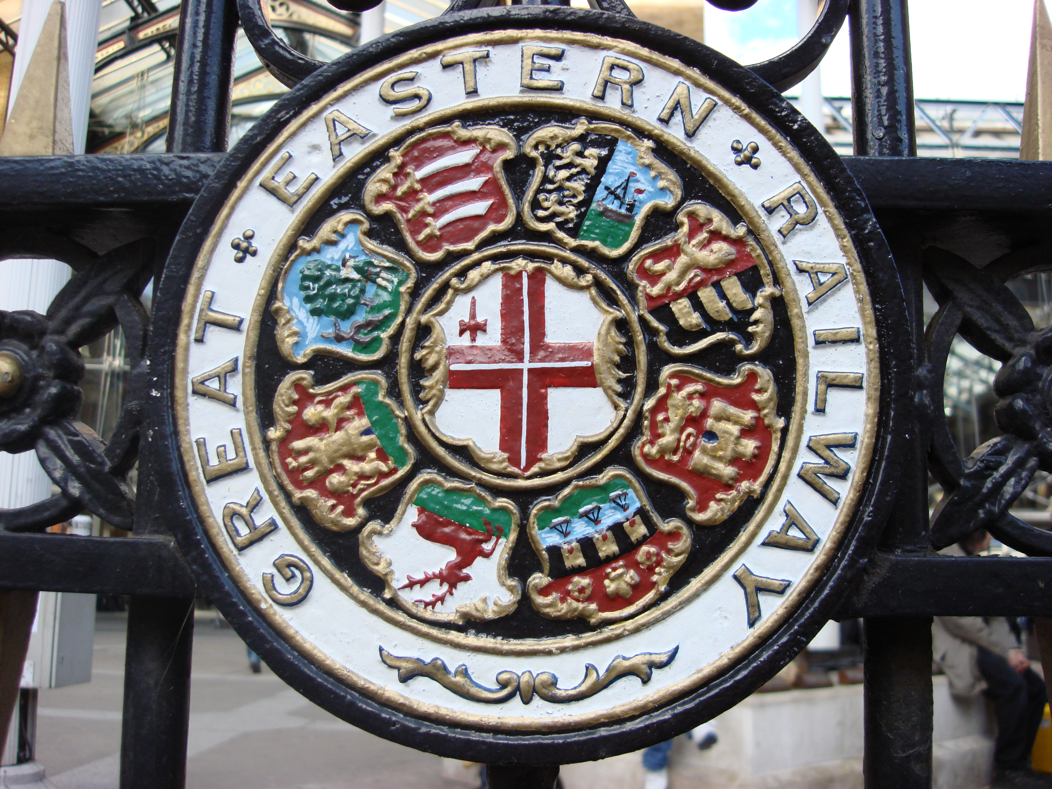 Great Eastern Railway heraldic device at Liverpool Street station. Comprised the shields of (clockwise from 1 o'clock): Maldon, Ipswich, Norwich, Cambridge, Hertford, Northampton, Huntingdon, and Middlesex; centre: City of London.